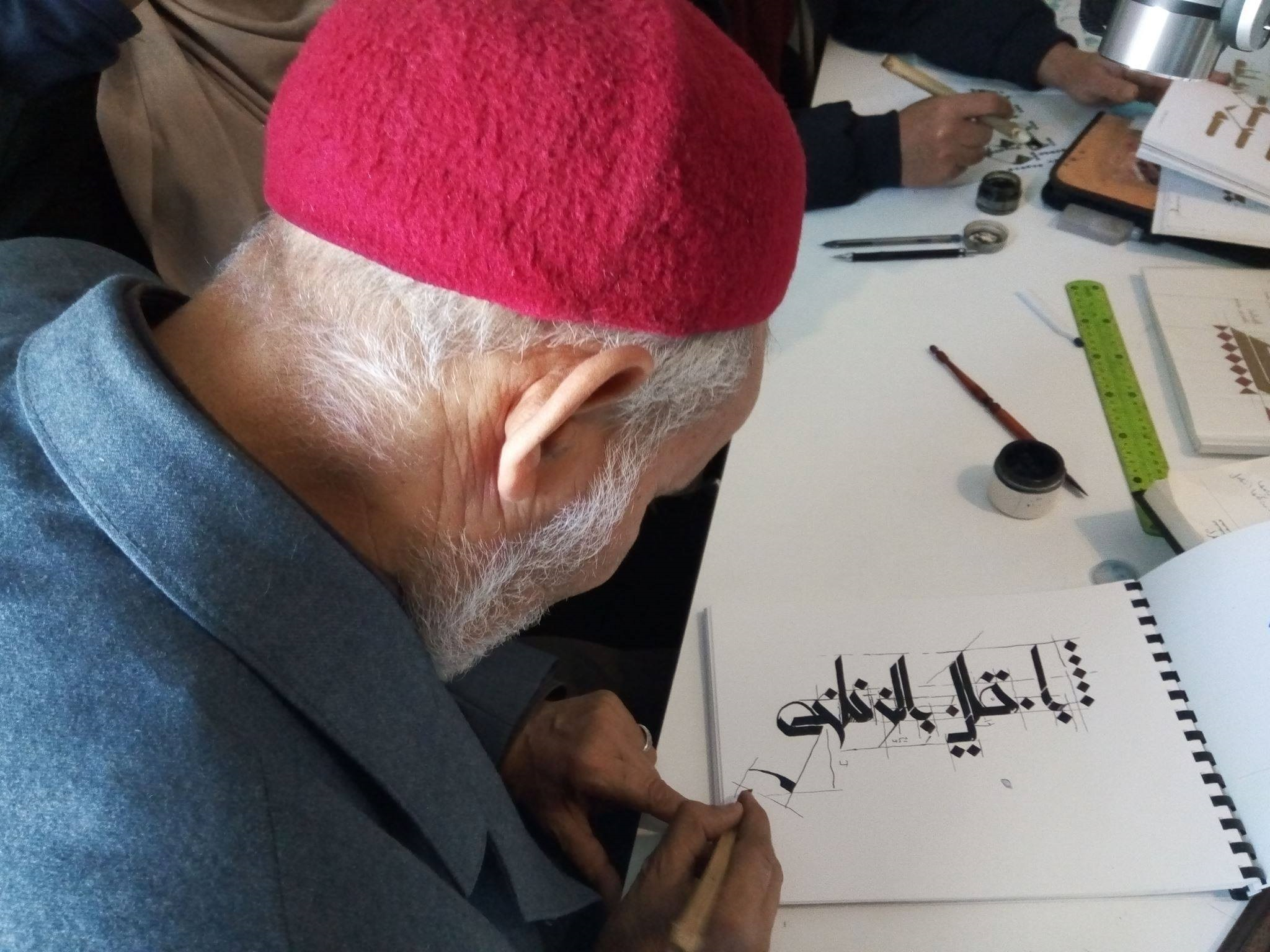 Master Calligrapher Ameur Ben Jedou from Sidi Bouzid Tunisia, teaching Kairouani Calligraphy at Dar el Harka, Medina of Tunis